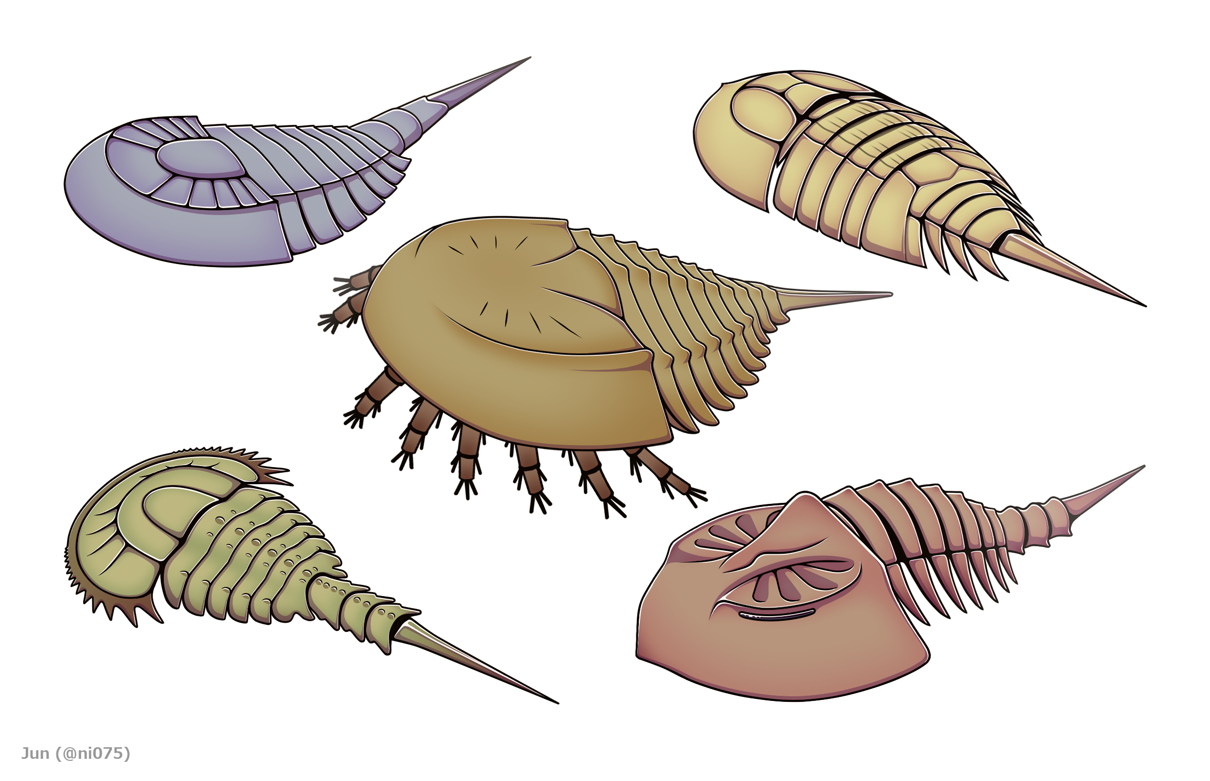 Examples of synziphosurines ("Synziphosurina", chelicerate, euchelicerate, Xiphosura sensu lato). Size not to scale.